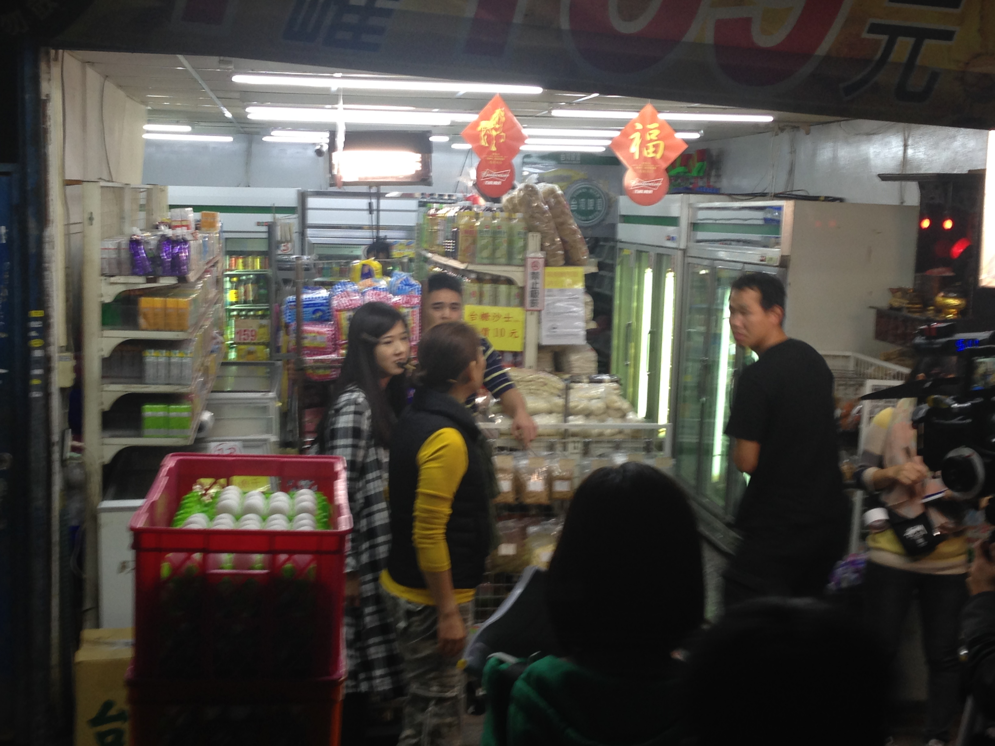 Lang Tsu-yun filming in a grocery store.